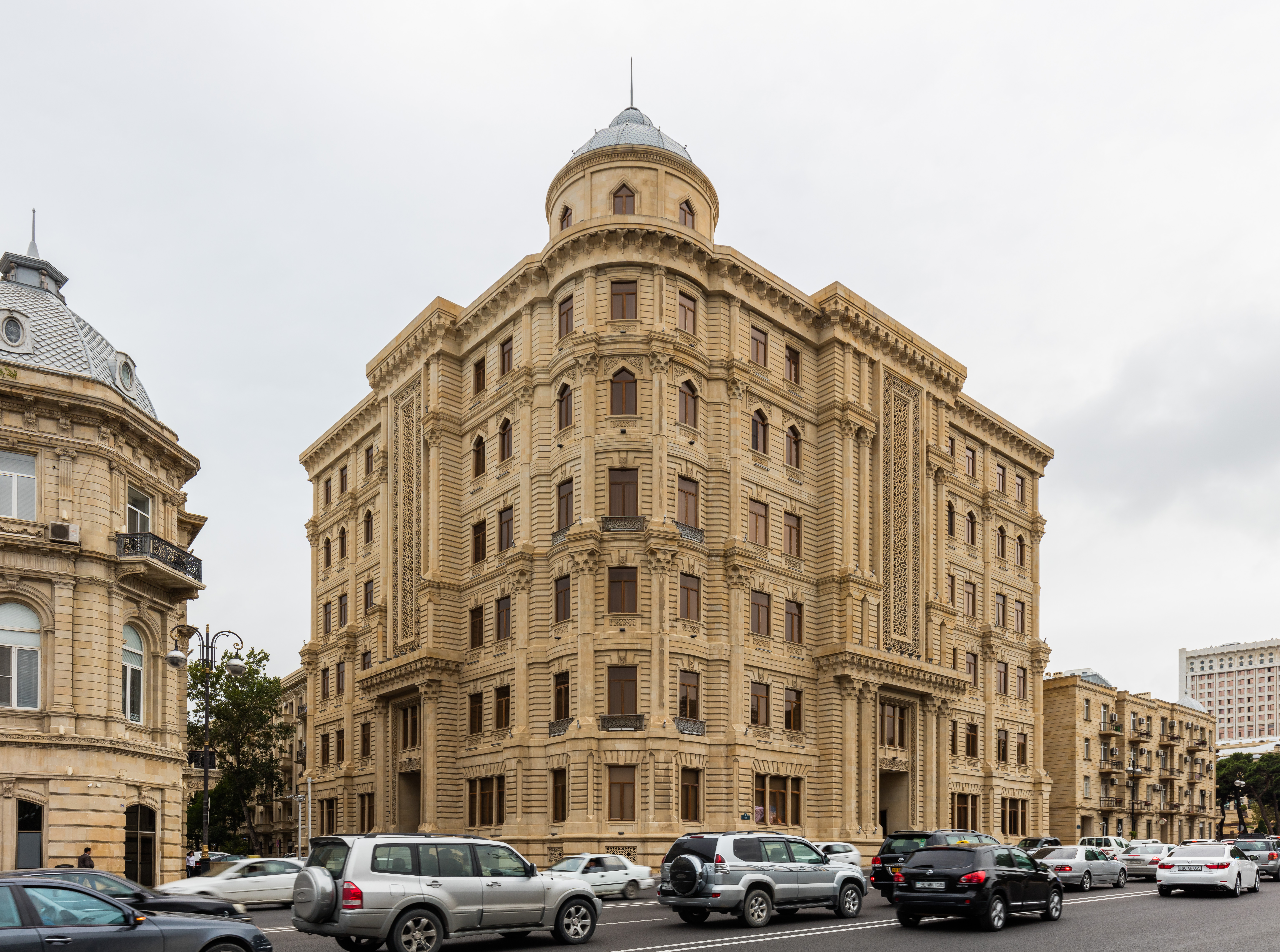 Building in Baku, Azerbaijan